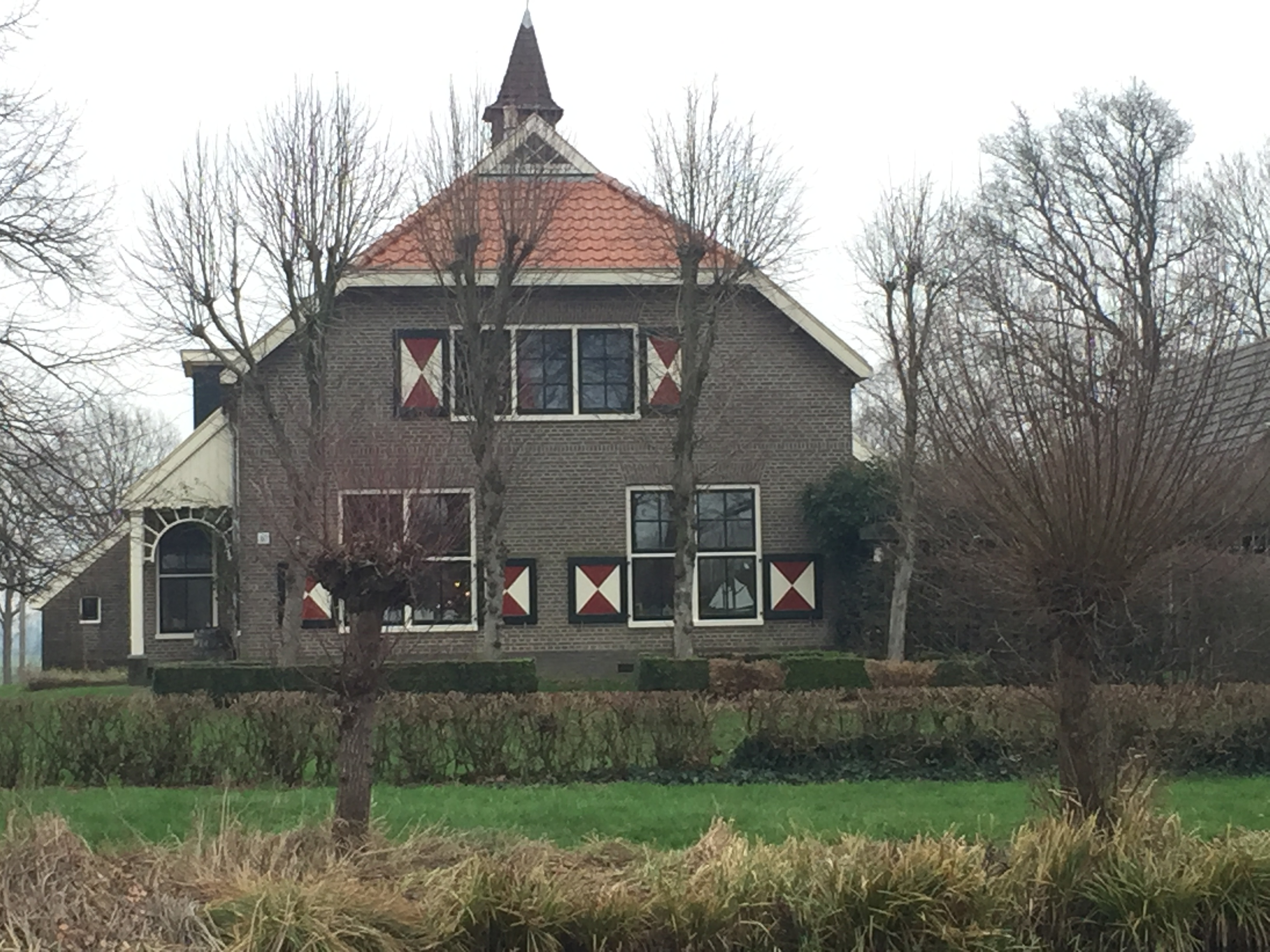 De farm at the Beilervaart 80 close to Beilen. In WO II the family of Lammert Zwanenburg, who was executed by the Germans, lived on the farm. It was a shelter for a number of jews. Also the traitor Geessien Bleeker was kept prisoner at the farm. Preacher and NSB-major Jacques Louis Brinkerink was together with his wife executed close to the farm